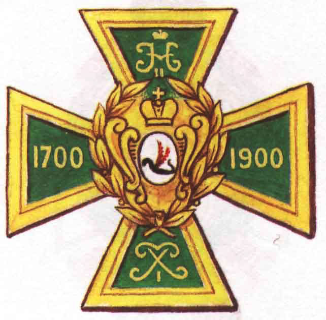 Badge of Kazansky 64-th Regiment